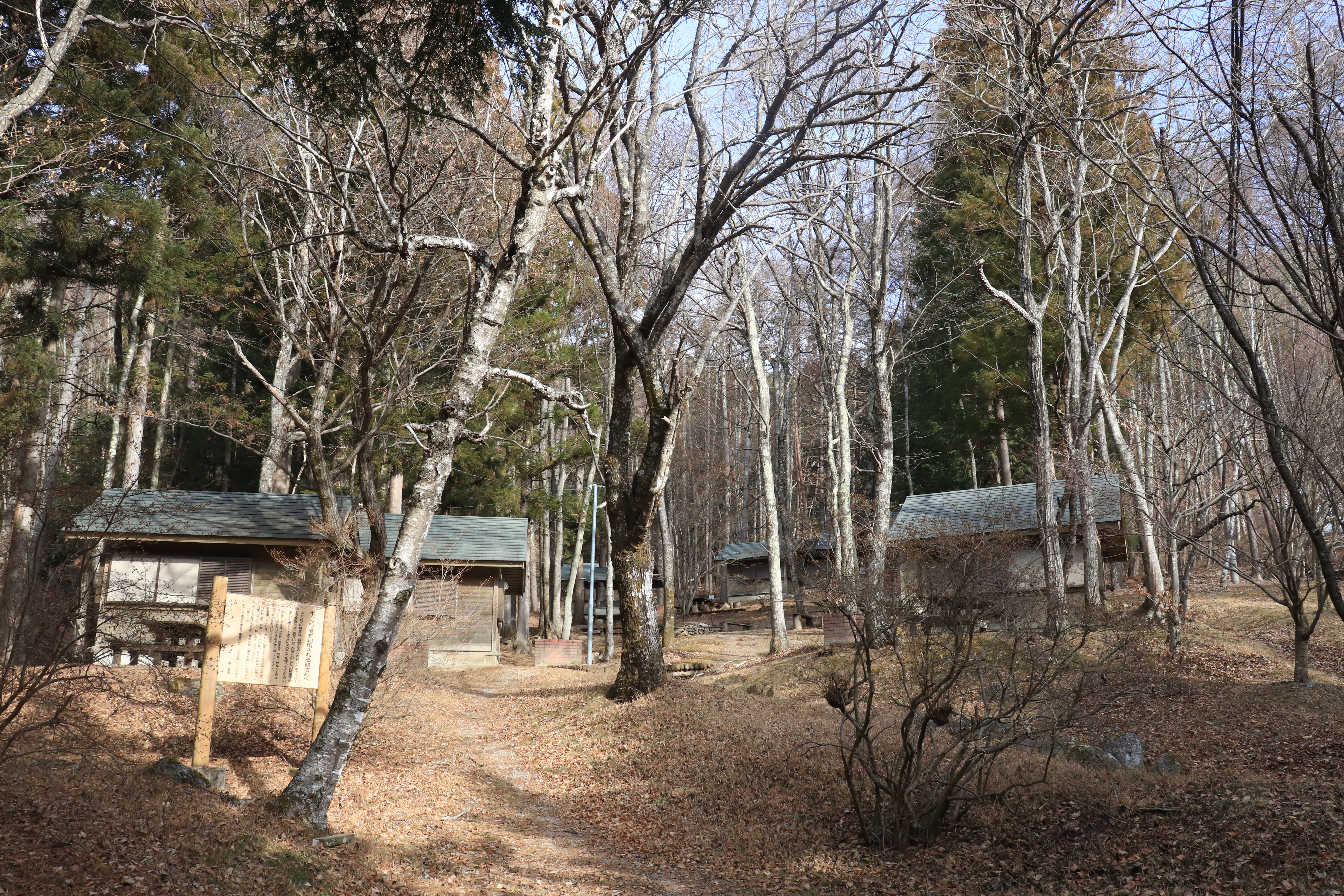 Tokurayama Campsite in Mount Tokura, Ina Mountains, Komagane, Nagano Prefecture, Japan.